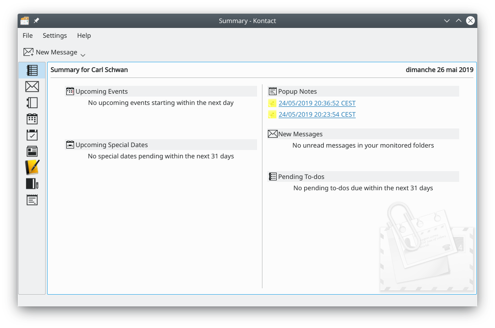 Screenshot of Kontact showing the Summary module